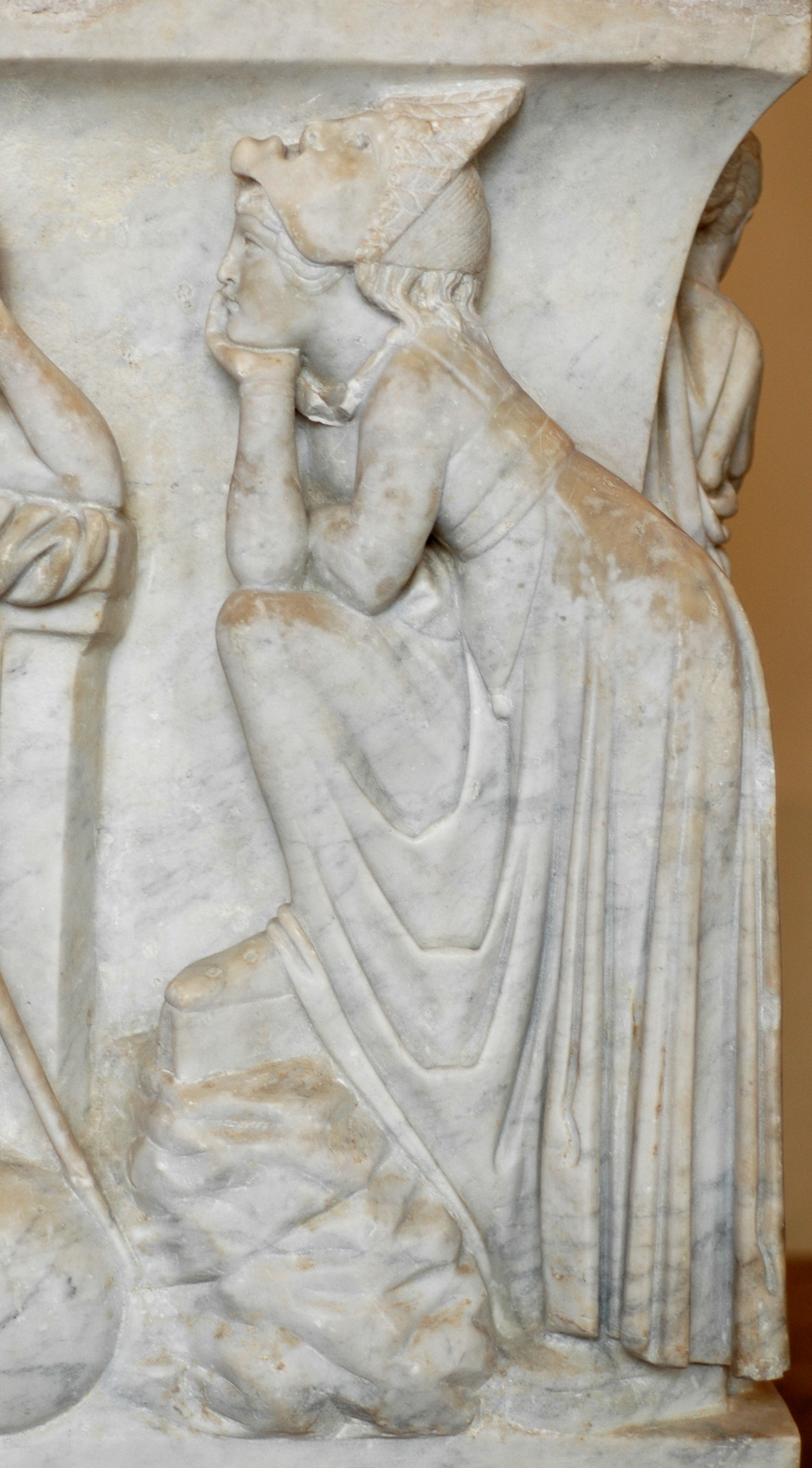 Melpomene, muse of tragedy, wearing a tragic mask. Detail from the “Muses Sarcophagus”, representing the nine Muses and their attributes. Marble, first half of the 2nd century AD, found by the Via Ostiense.